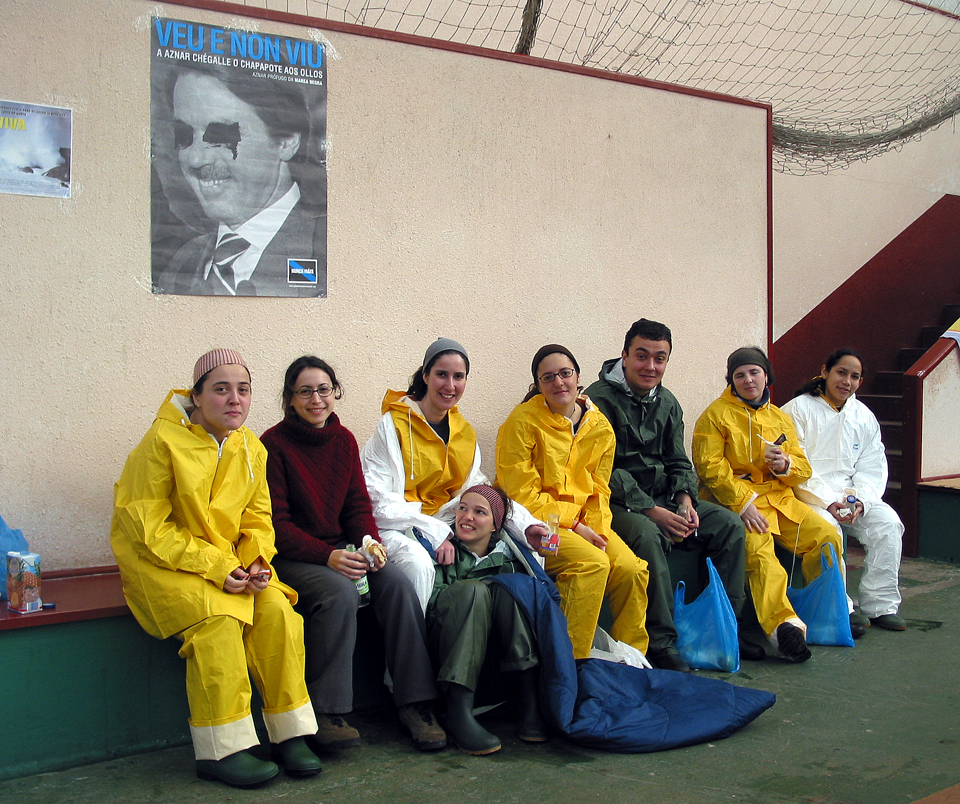 HISTORIAS DEL CHAPAPOTE •Corto Documental 2003 •Dir. Stéphane M. Grueso •Prod. Stéphane M. Grueso •Backpackvideo Films •1 x 35' / color / stereo •DVCAM Tras el vertido del petróleo Prestige frente a las costas gallegas se produce la mayor catástrofe medioambiental de la historia de España. Toneladas y toneladas de petróleo van llegando a las costas. Ante la pasividad o desbordamiento de las autoridades, los ciudadanos se organizan y van a Galicia a ayudar a recoger el fuel. La figura del voluntario nace en España. En este documental seguimos la experiencia de un grupo de 50 voluntarios organizados por la Universidad de Sevilla, que van a Galicia a luchar contra la catástrofe. Durante seis días seguimos sus actividades y nos cuentan sus experiencias. Mediante este documental pretendemos descubrir y comprender las motivaciones que llevan a un grupo de personas a realizar una acción tan solidaria, novedosa y casi desconocida en nuestros días. Más info en: ENGLISH---------------------------------- STORIES OF THE CHAPAPOTE •Documentary 2003 •Dir. Stéphane M. Grueso •Prod. Stéphane M. Grueso •Backpackvideo Films •1 x 35' / color / stereo •DVCAM The spill from the Prestige, the oil tanker which broke up and sank off the coast of Galicia, caused the biggest environmental disaster in Spain's history. Tones and tones of oil kept arriving at the coast. With the authorities failing to act or overtaken by events, ordinary citizens organized themselves and set off for Galicia to help clean up the fuel oil. Thus was the figure of the volunteer born in Spain. This documentary records the experiences of a group of 50 volunteers organized by the University of Seville who went to Galicia to combat the catastrophe. It follows them for six days and they tell us about their experiences. This documentary sets out to discover and understand what motivates a group of people to carry out such a novel act of solidarity, something practically unheard of nowadays. More Infos in